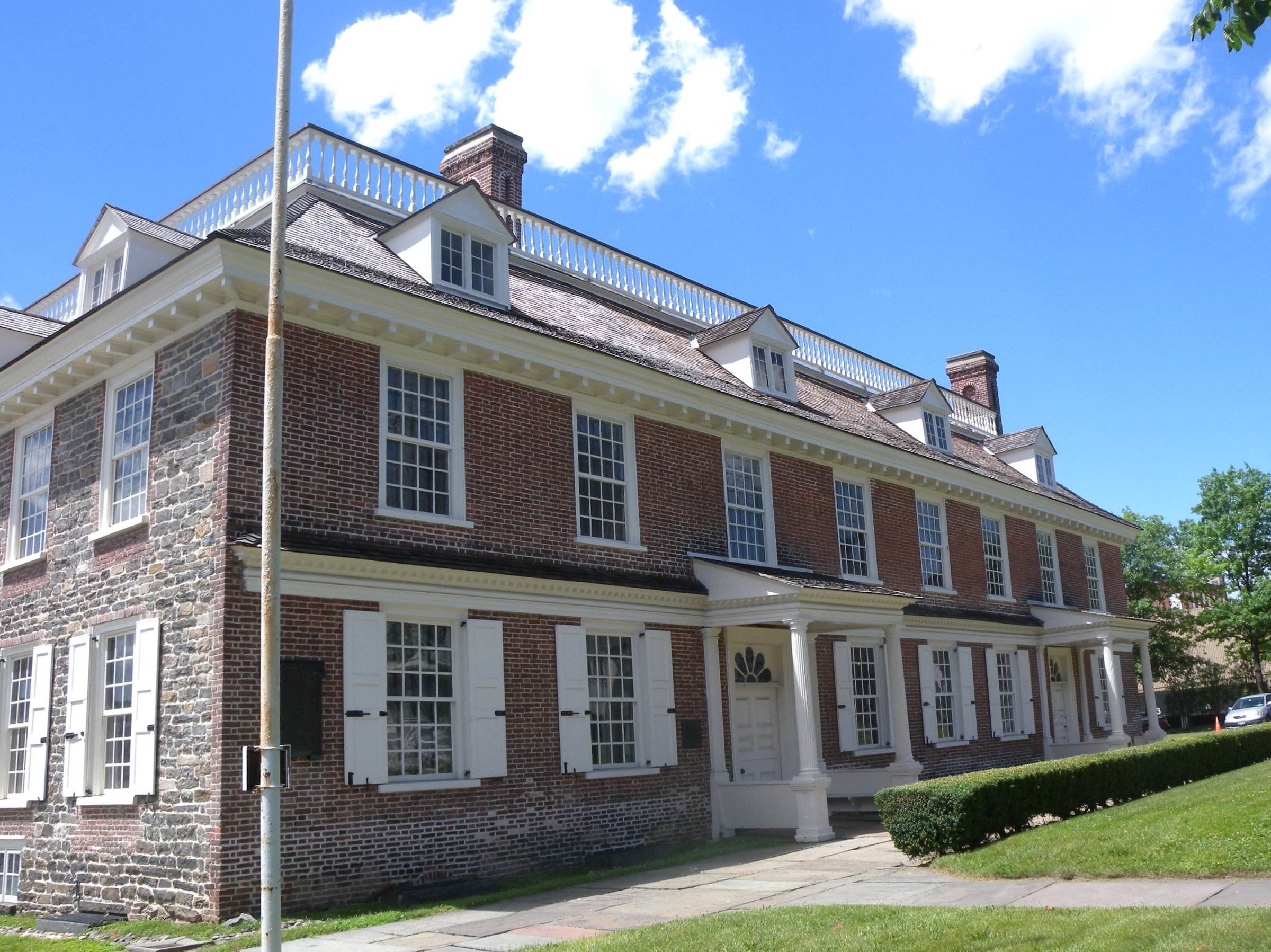 Looking north at Philipse Manor from Getty Sq on a sunny early afternoon.